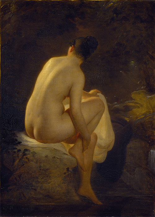 Girl Bathing